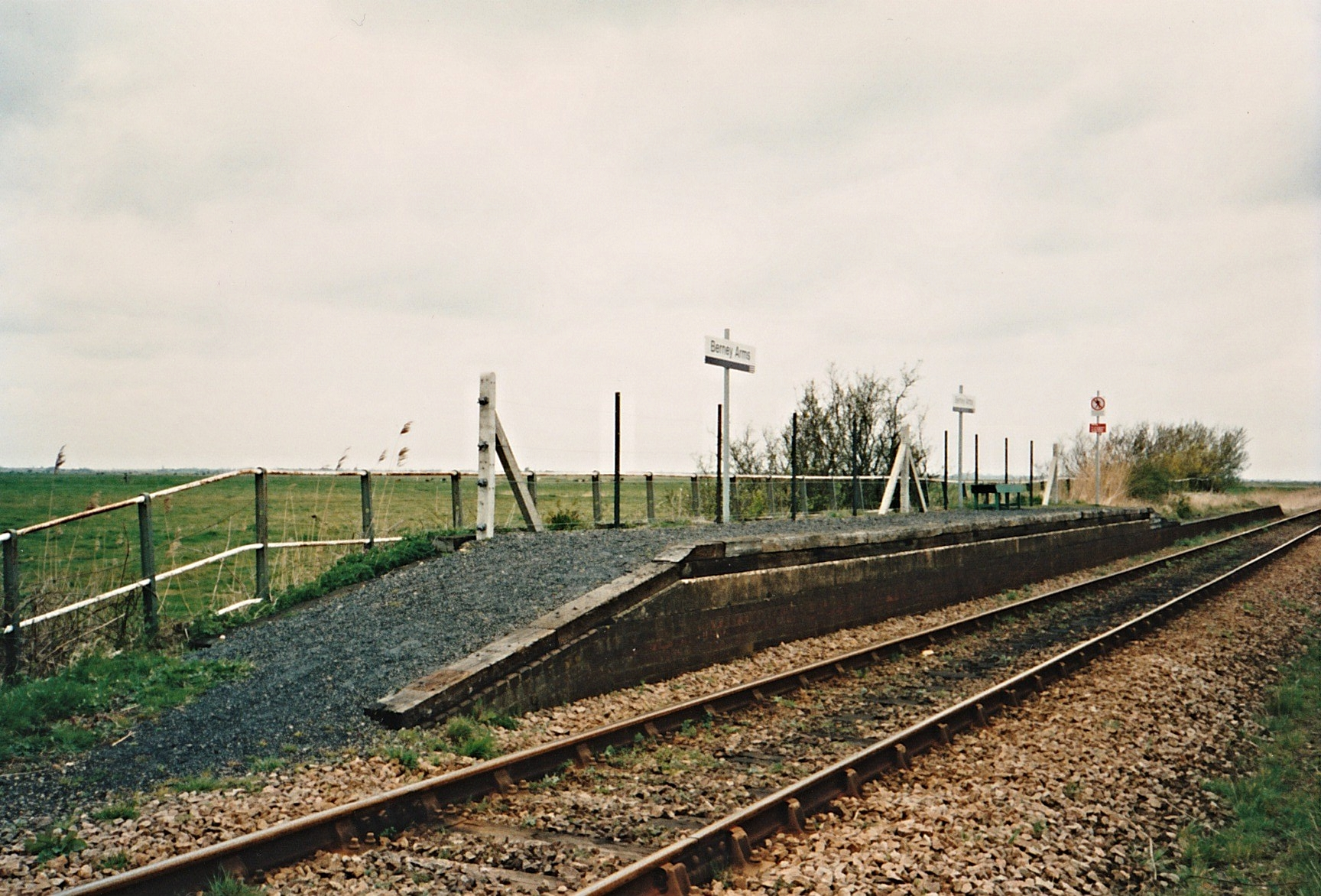 Berney Arms is located in Halvergate Marshes between Reedham and Great Yarmouth, and located roughly 2 miles from the nearest road is only accessible by foot. Nearby are the Berney Arms pub and windmill which sit alongside the River Yare. Berney Arms station takes its name from Thomas Berney, who owned the land through which the railway line passes here. He sold the land to the Yarmouth and Norwich Railway on the condition that a station and train service be provided. The station and train service survive today, and could not be a greater contrast from the other end of the Greater Anglia network at London Liverpool St. A good history of the station can be found at